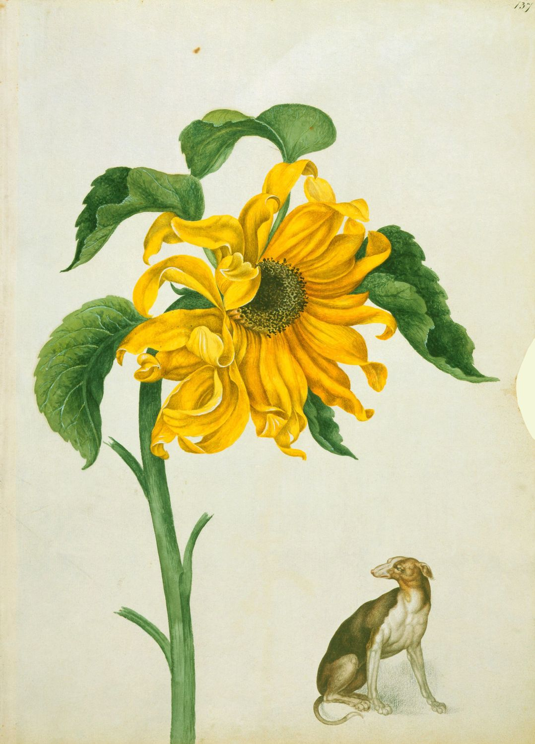 A page of watercolours of a large Sunflower and a dog in miniature. The sunflower is native to the Americas and was brought to England in the sixteenth century. The creatures which Marshal often drew on the same sheet as his plant studies are usually out of scale, and seem to be included as light-hearted additions to the florilegium. Provenance: Presented to George IV